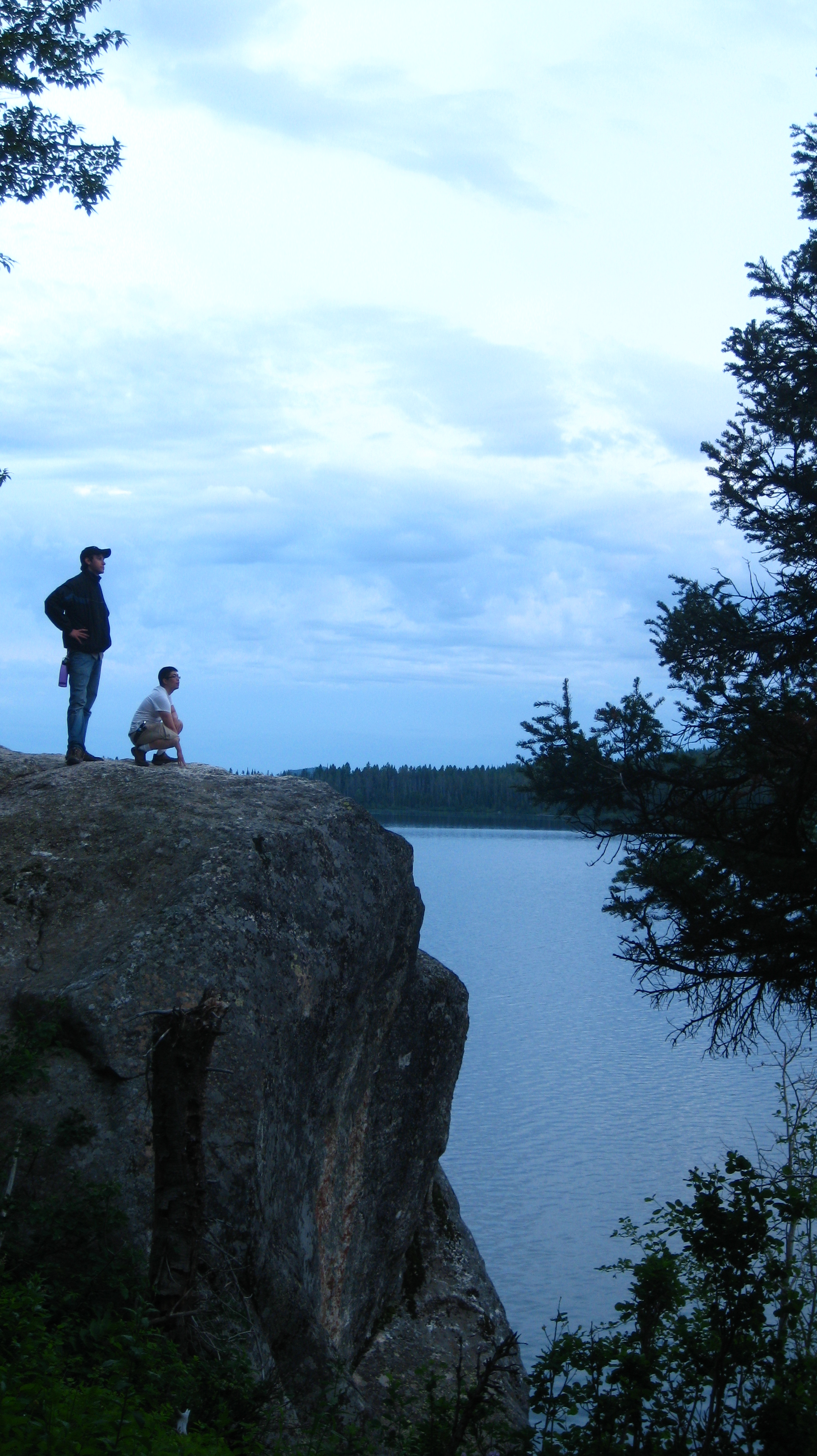 Jumping Rock